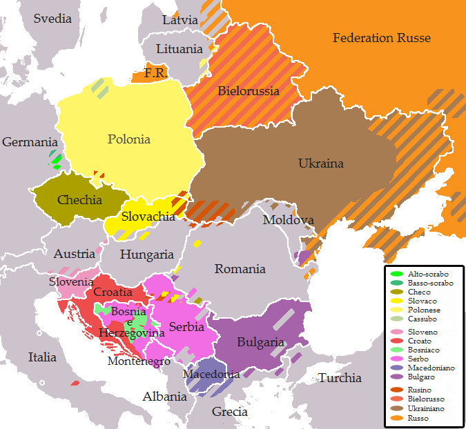 Map of the Slavic languages in Interlingua Interlingua: Carta del linguas slave in Interlingua